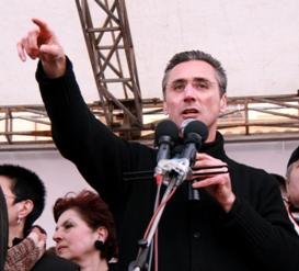 April 10, 2009... Gia Maisashvili, opposition leader, speaking to the protesters in front of the parliament building.